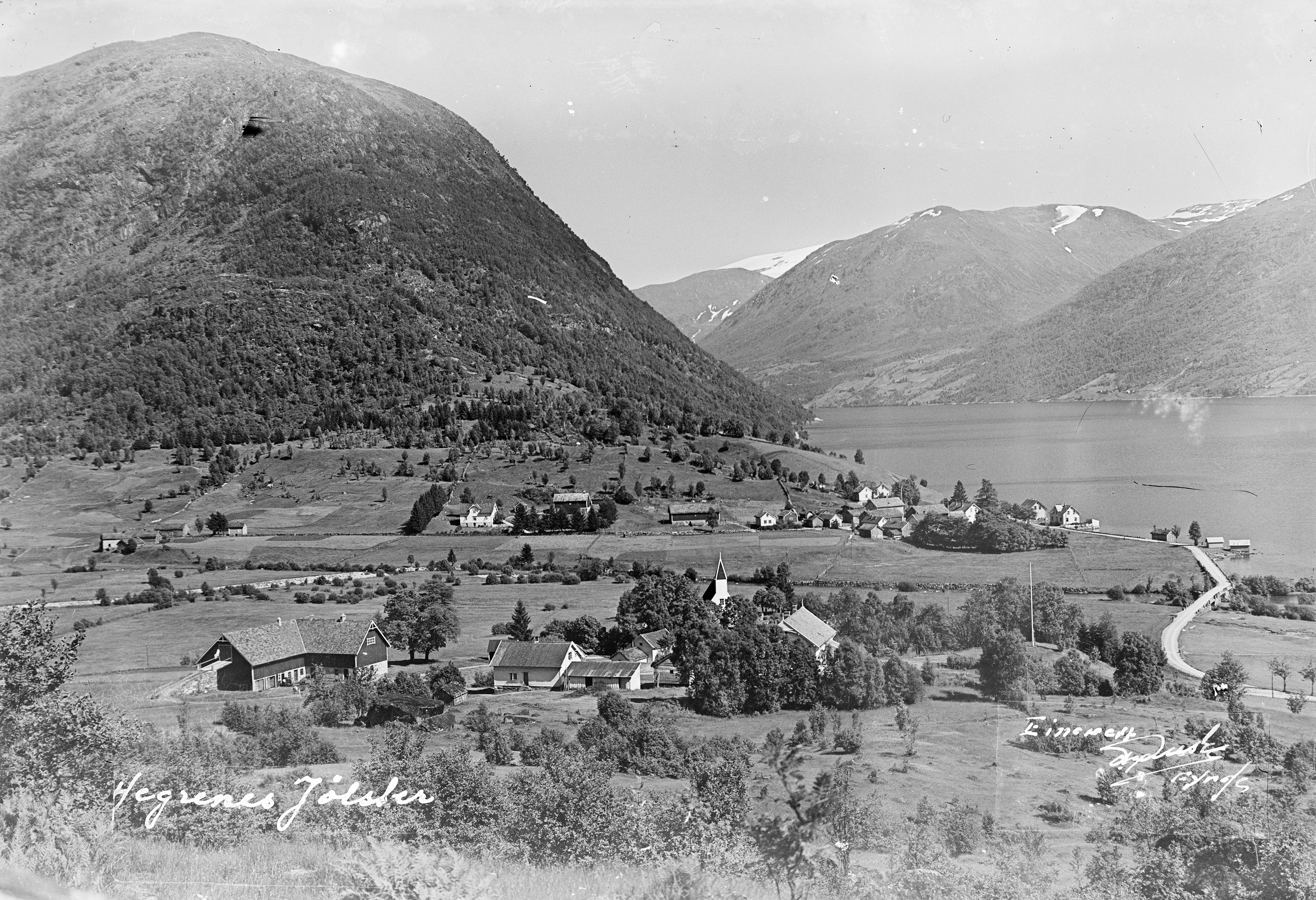 Identifier: SFFf-1989013.180549 Description: View of Ålhus, Jølster. The vicarage and church in front, and the Hegrenes farms in the background. Medium: Glass plate negative Extent: 13 x 18 cm Photographer: Olai Fauske